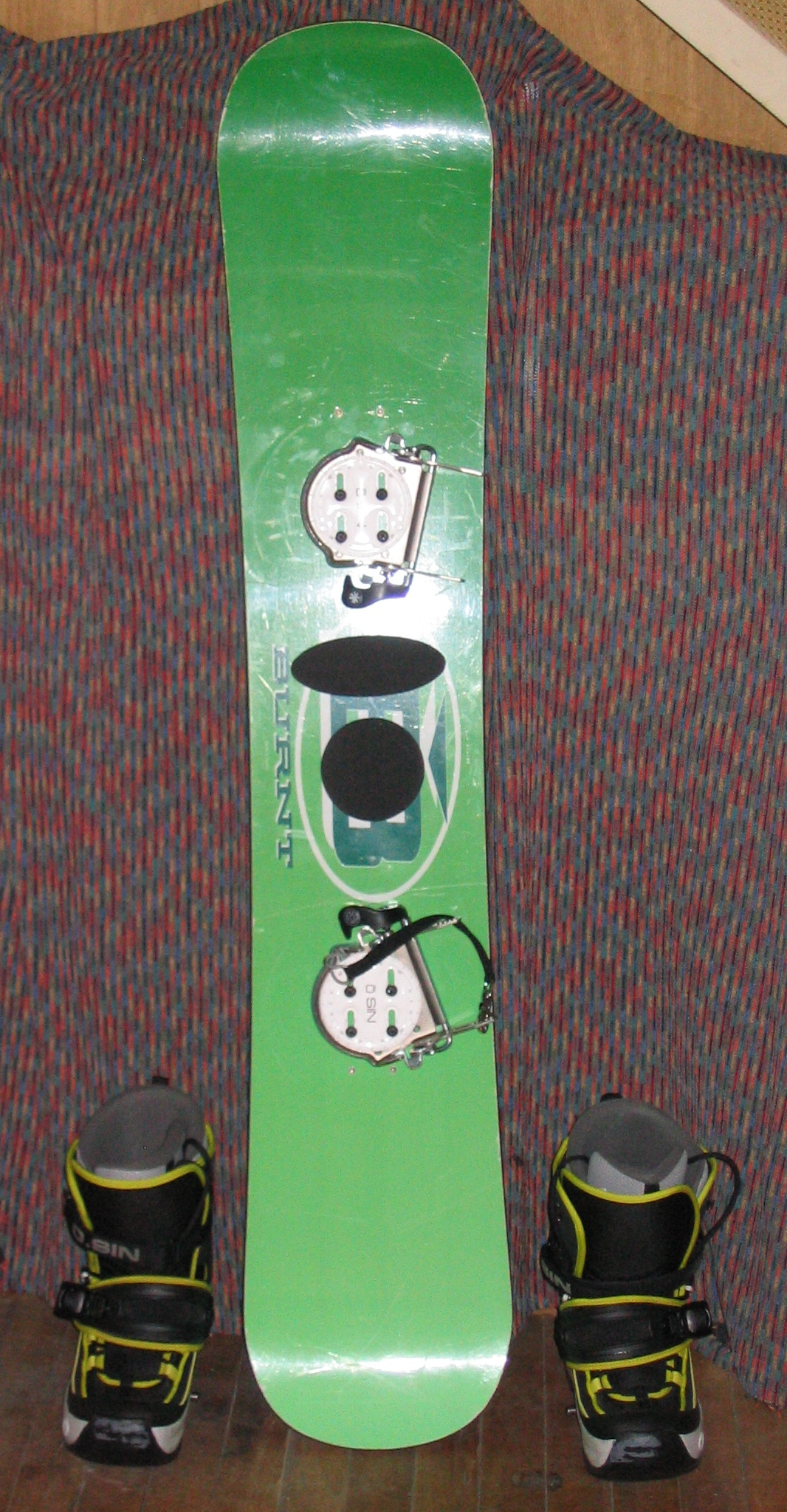 Ready for the slopes